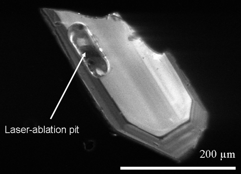 An example of laser ablation pit on zircon grain, from